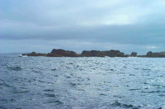 Rags - Scilly. One of the isolated granite crags of the Western Rocks. A favourite haunt of cormorants.